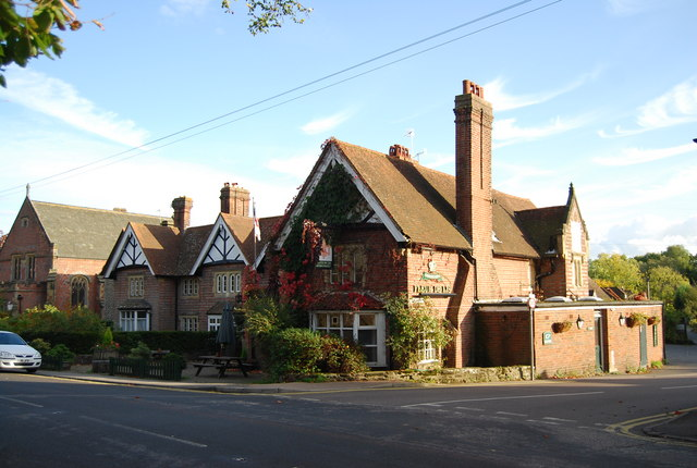 Fleur De Lis, Leigh Large roadside public house in Leigh